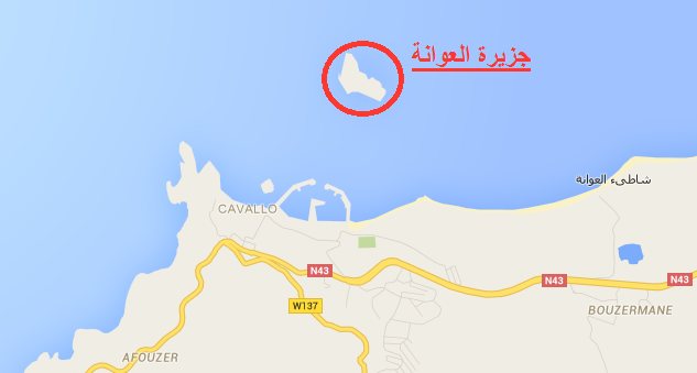 موقع جزيرة العوانة